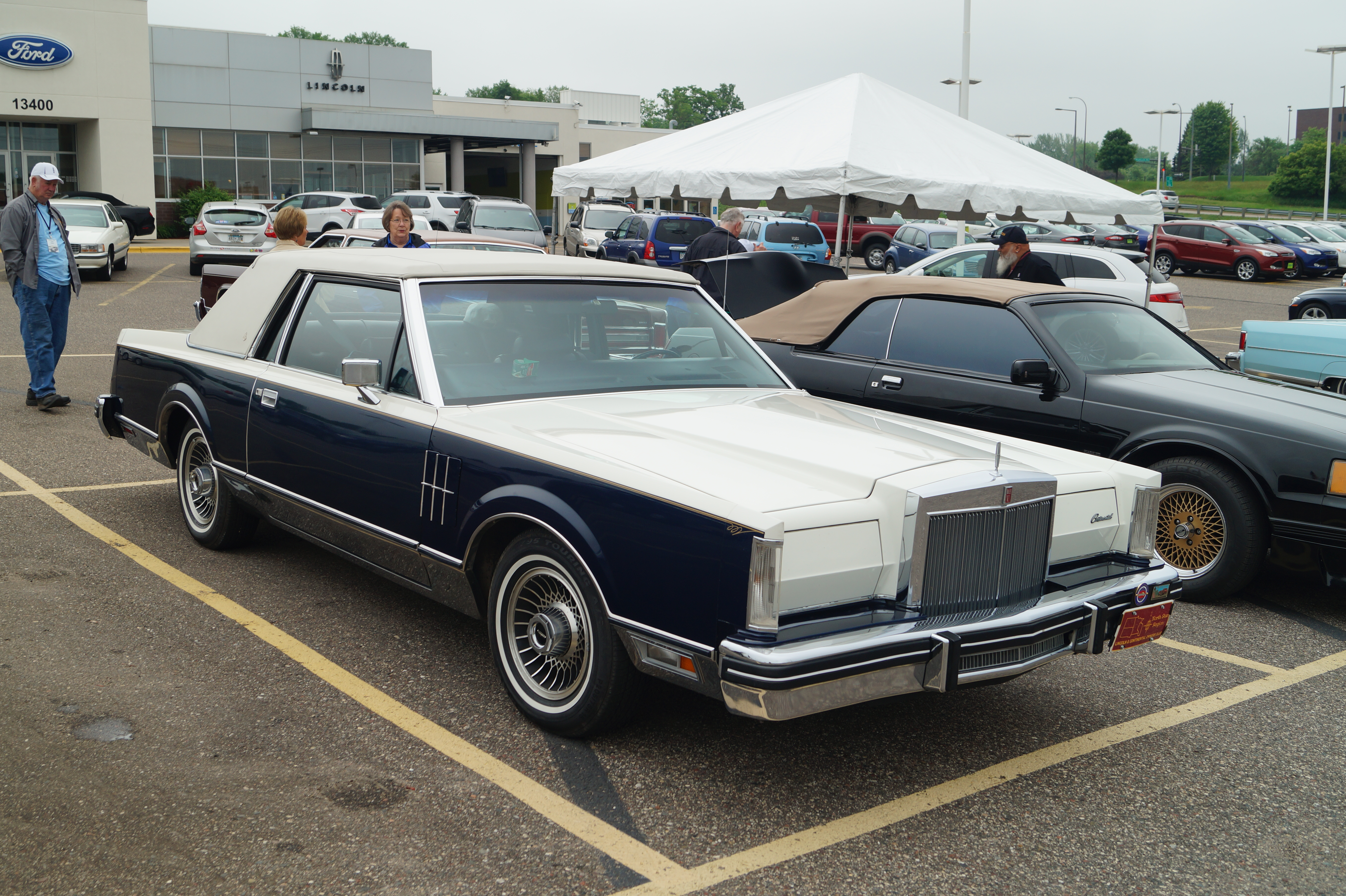 Lincoln & Continental Owners' Club North Star Region 8th Annual Classic Lincoln Car Show Morrie's Minnetonka Ford-Lincoln Minnetonka, Minnesota Click here for more car pictures at my Flickr site.